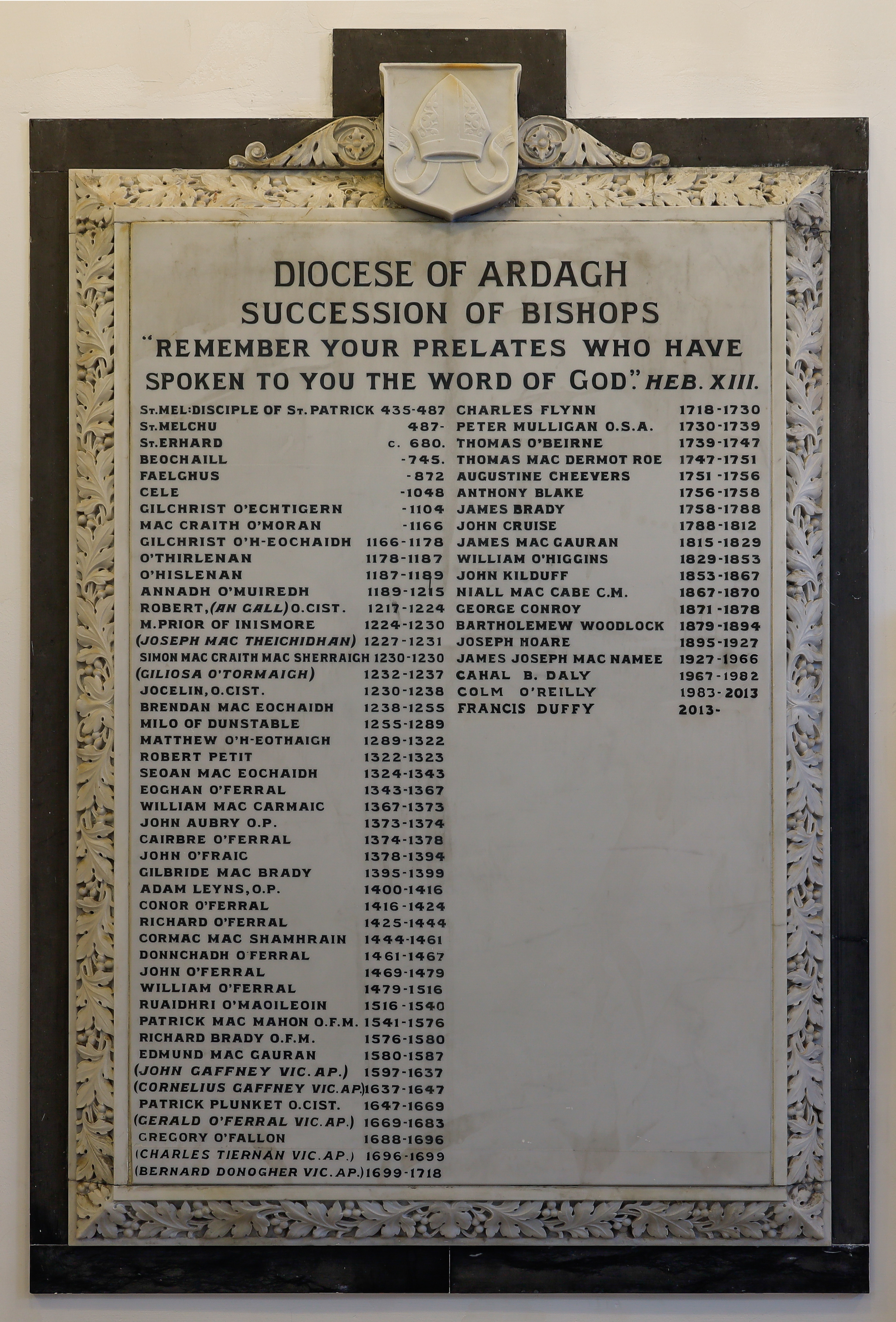 Bishops' plaque in the east vestibule, listing the succession of bishops of the Diocese of Ardagh, beginning with St. Mel and ending with Francis Duffy. The plaque cites Hebrews 13:7 “Remember your prelates who have spoken to you the word of God.”